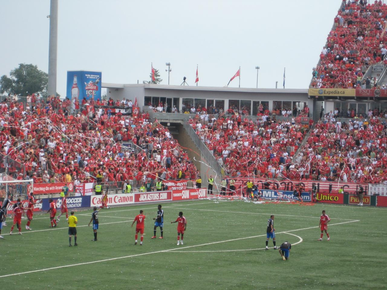 Toronto FC vs. San Jose Earthquakes, 19 July 2008 at BMO Field in Toronto Uploaded with the Flock Browser